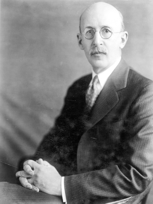 Image of Walter Curran Mendenhall (1871-1957), an American geologist. Fifth director of United States Geological Survey, 1930–1943.